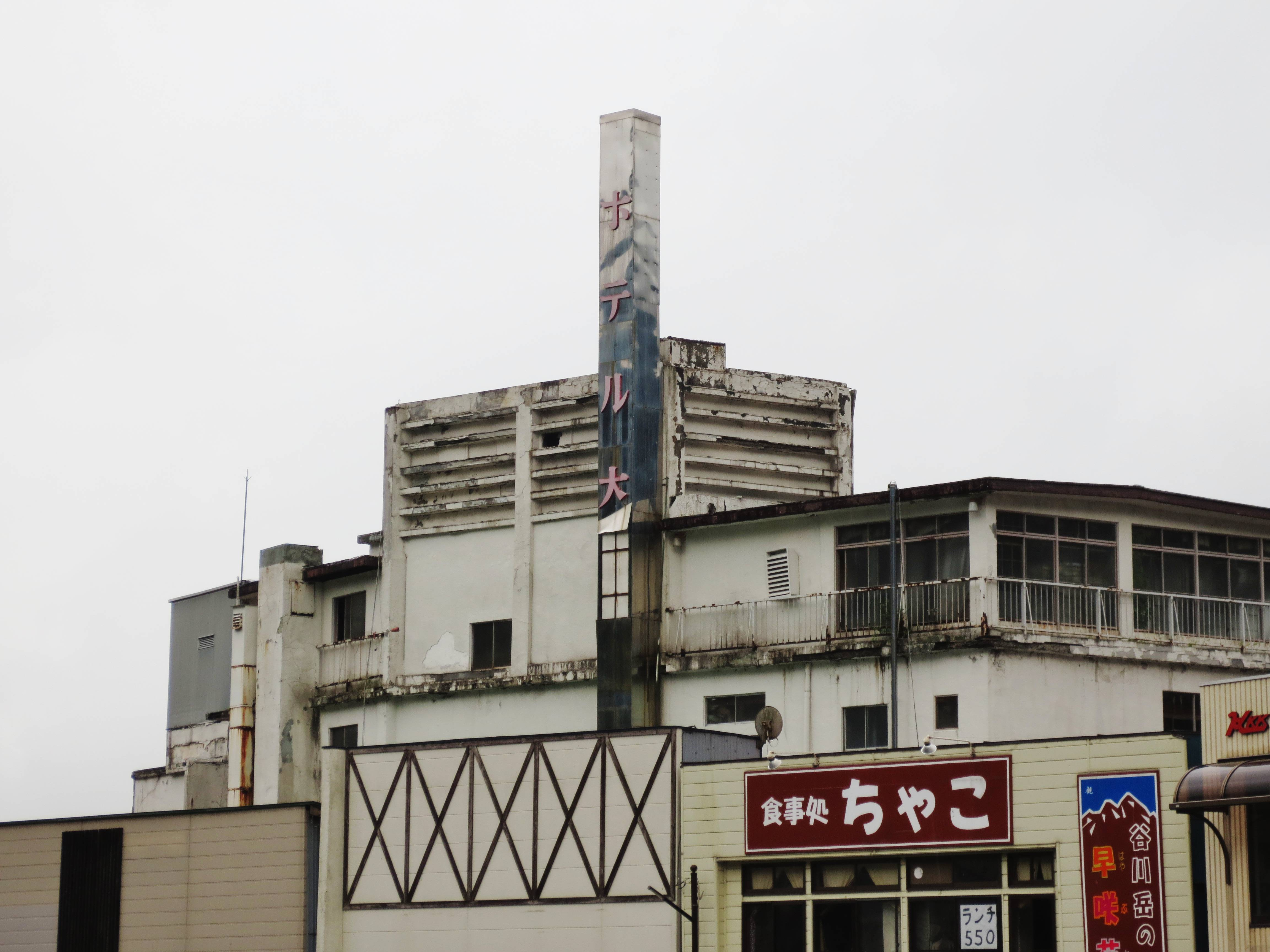 Hotel Ōmiya (Minakami, Gunma).